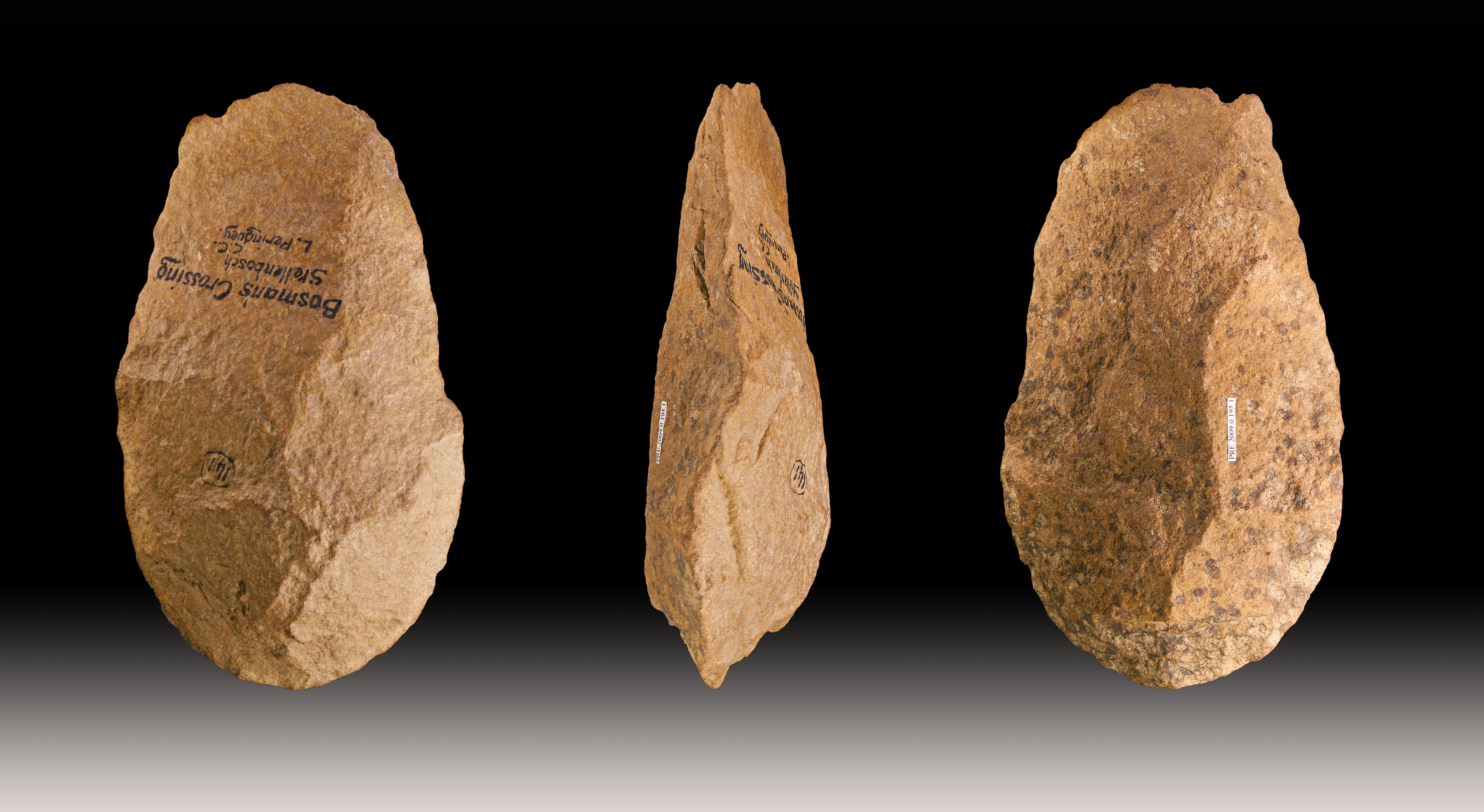 Different views of the same specimen.